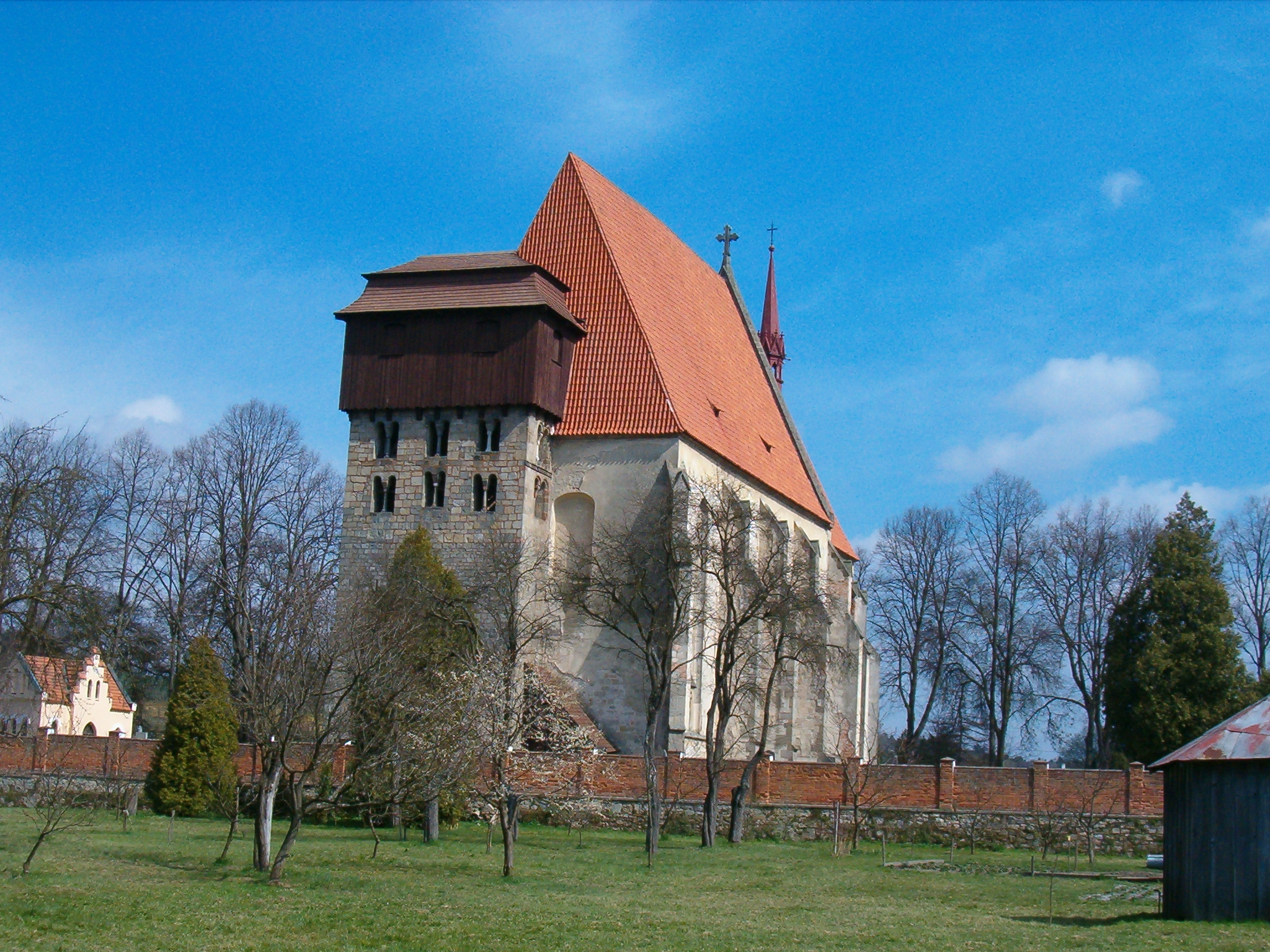 St Giles church in Milevsko monastery, Czech Republic